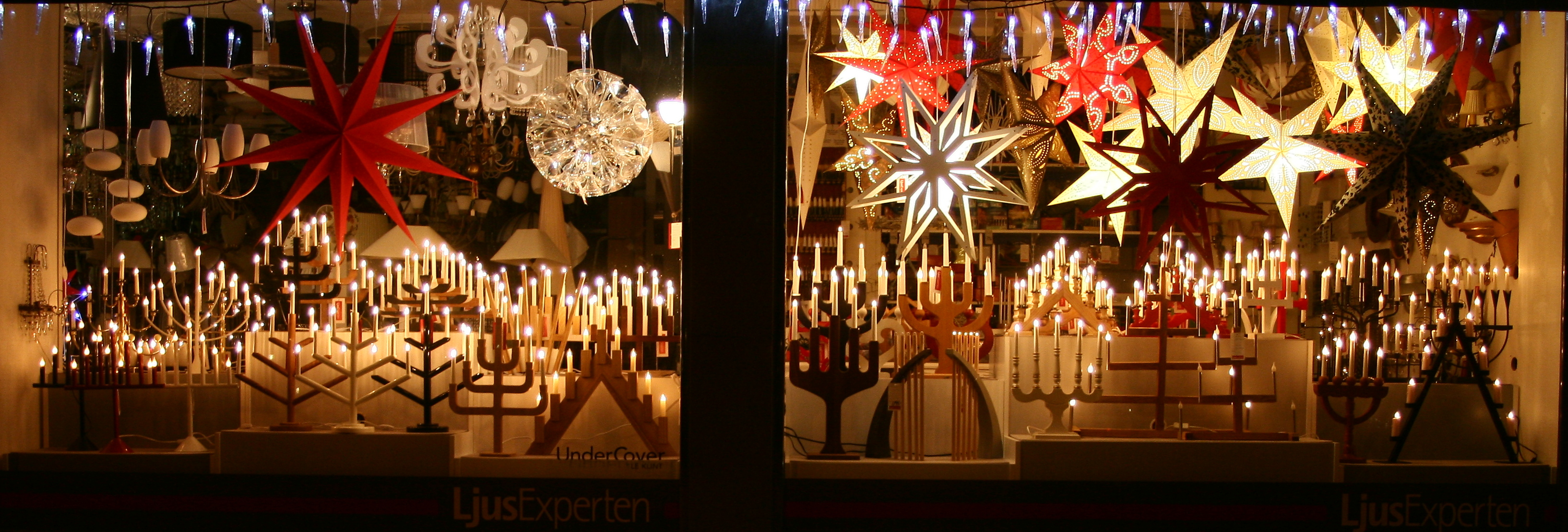 Shop window of Ljusexperten, Linköping, Sweden, showing electric advent candles and star of Bethlehem.